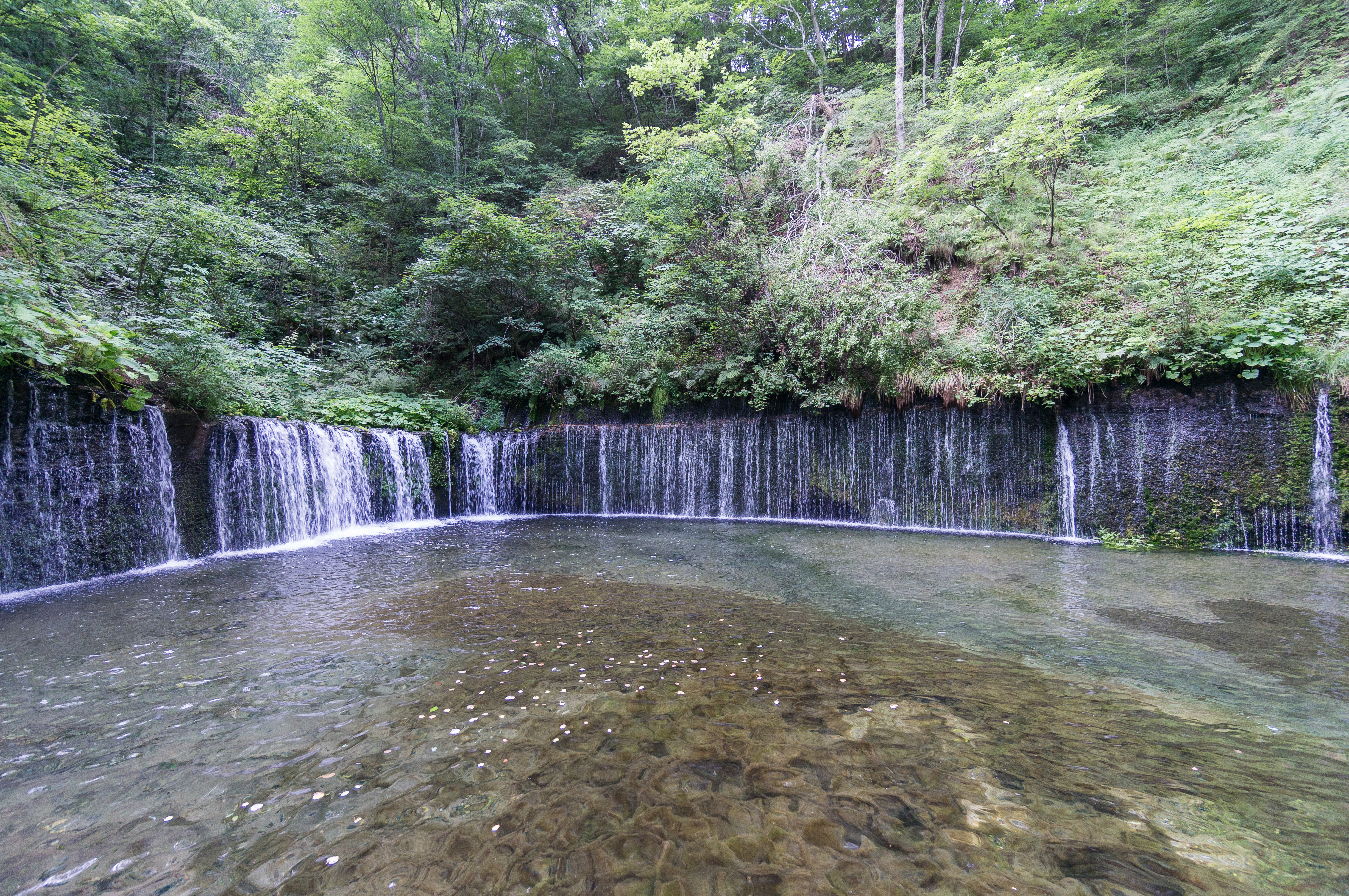 Shiraito Falls in Karuizawa, Nagano Prefecture, Japan.